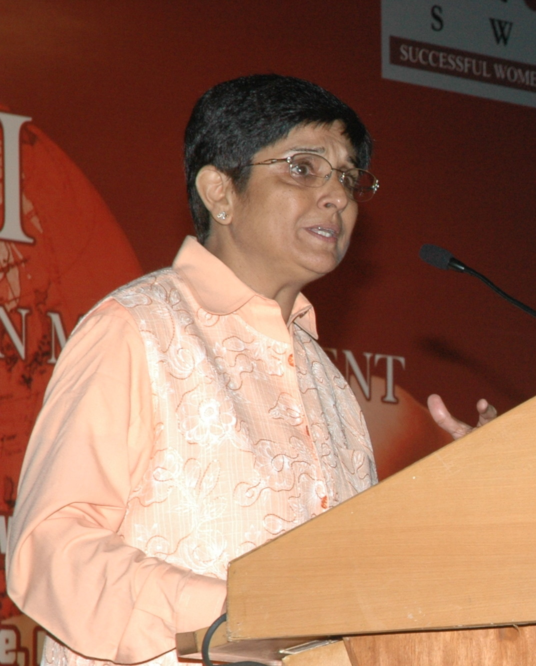 Dr. Kiran Bedi @ SWIM Conference. SWIM - Successful Women in Management, a Great Lakes Initiative towards empowering Women Folks towards Professional excellence.